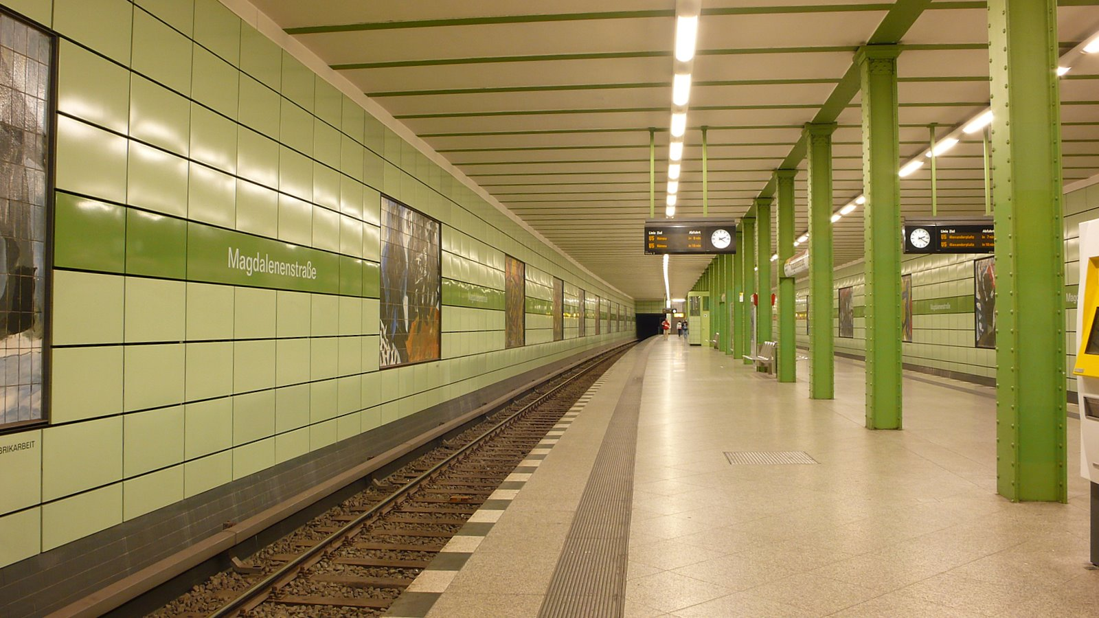 Subway Magdalenenstrasse